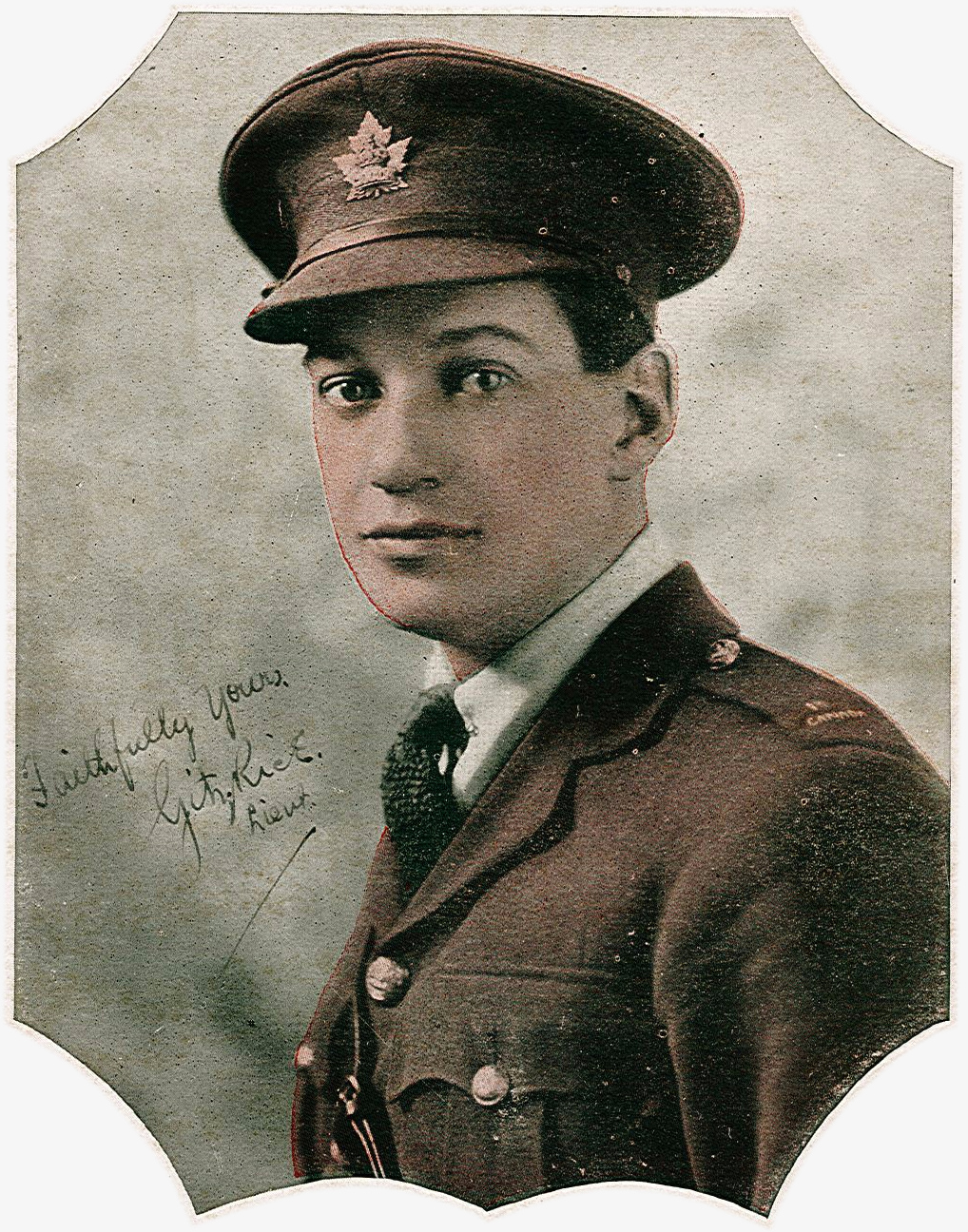 Gitz Rice